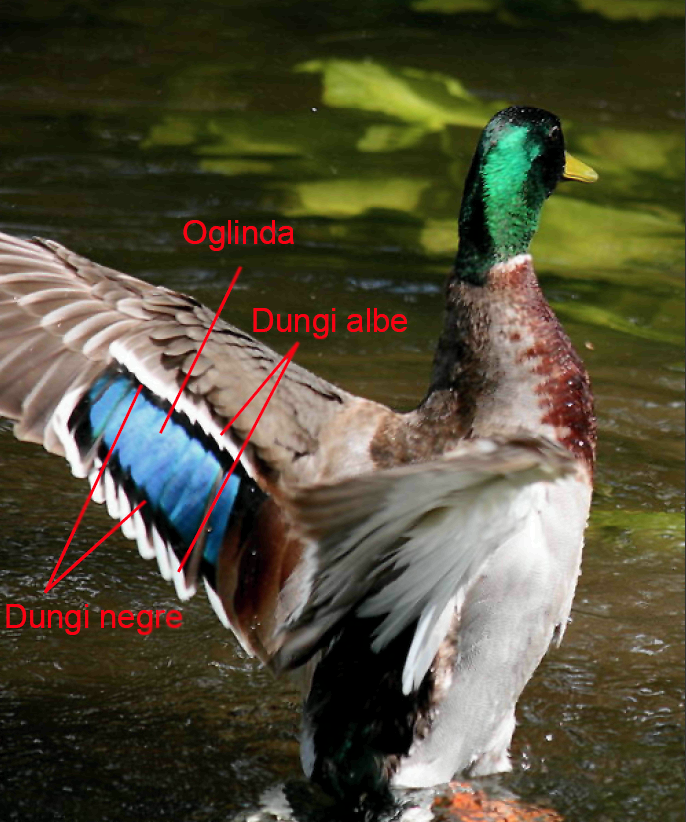 Mallard speculum